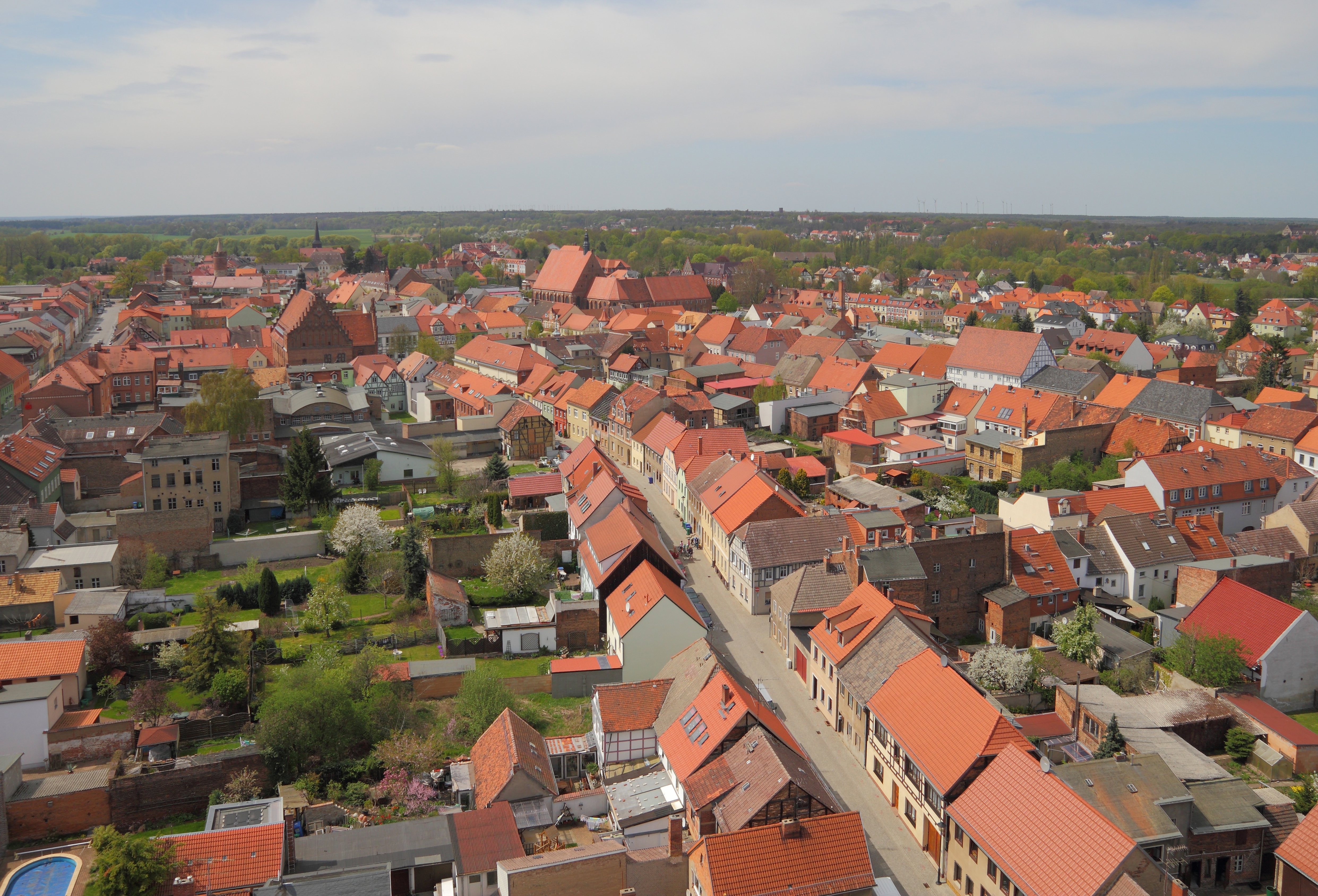 View from St. Nicholas Church in Jüterbog, Brandenburg, Germany